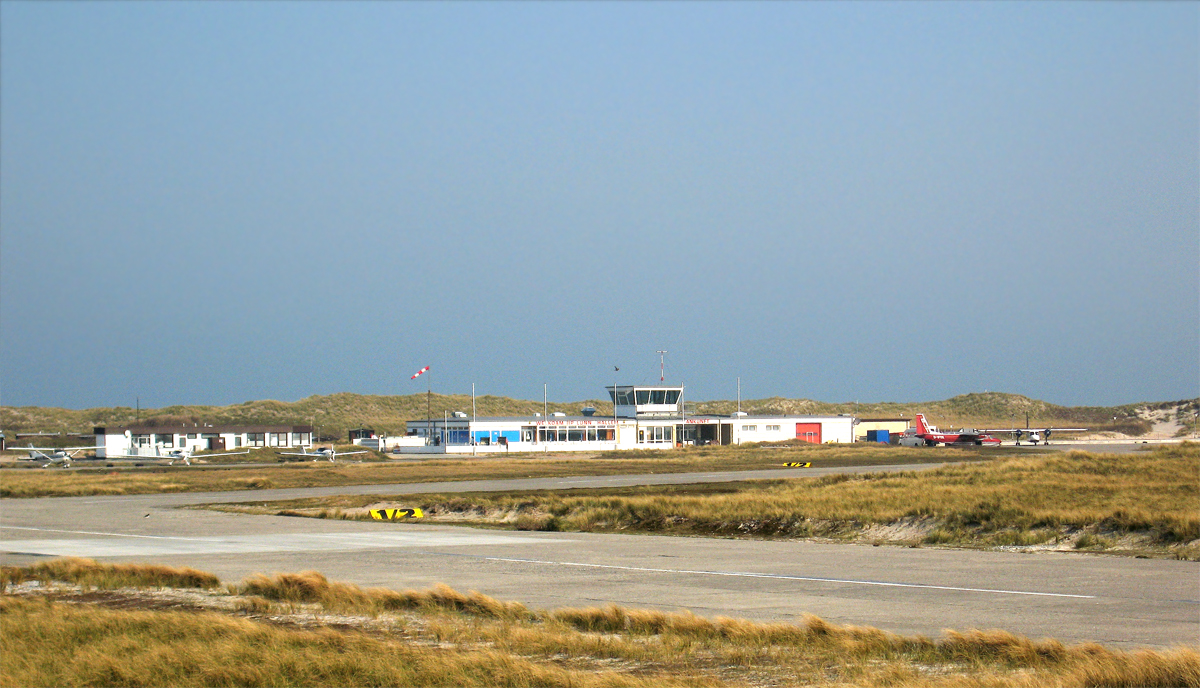 Helgoland Airport